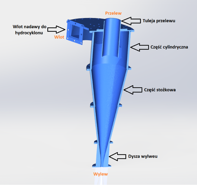 Hydrocyclone corss-section with description